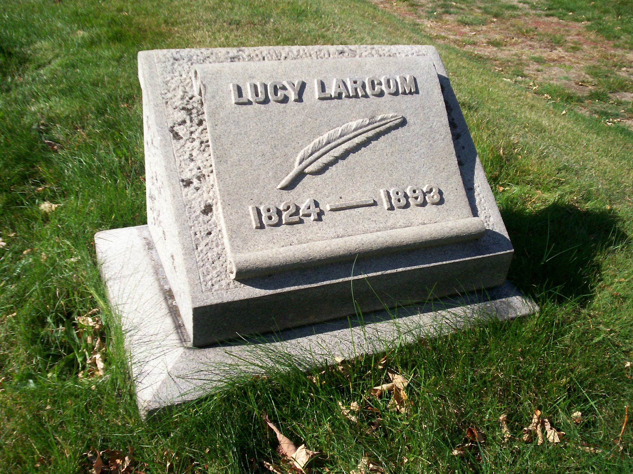 Grave of American writer and poet Lucy Larcom (1824-1893) - Central Cemetery, Beverly, Massachusetts